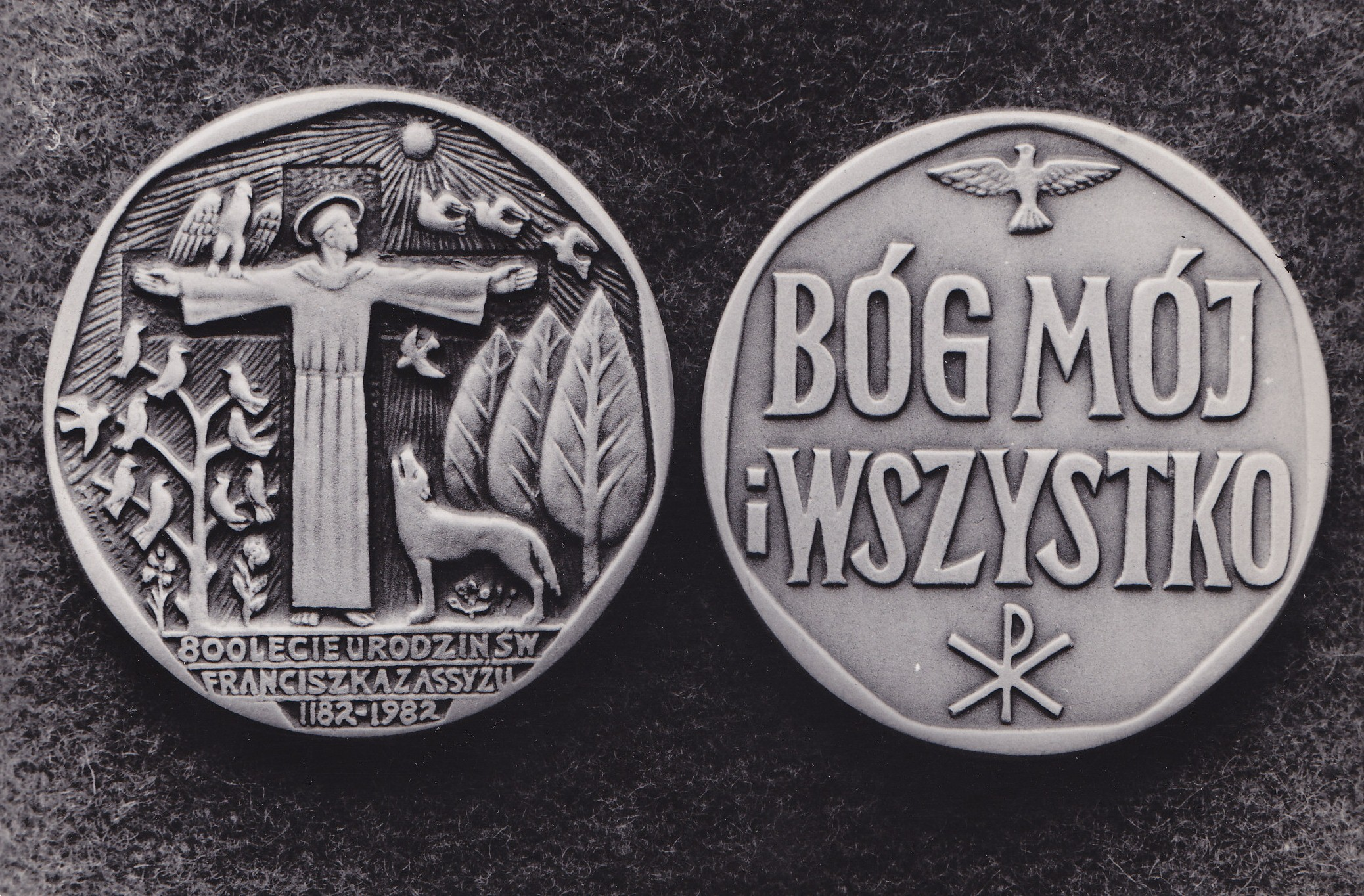 Art Medal of Saint Francis of Assisi by Katarzyna Piskorska